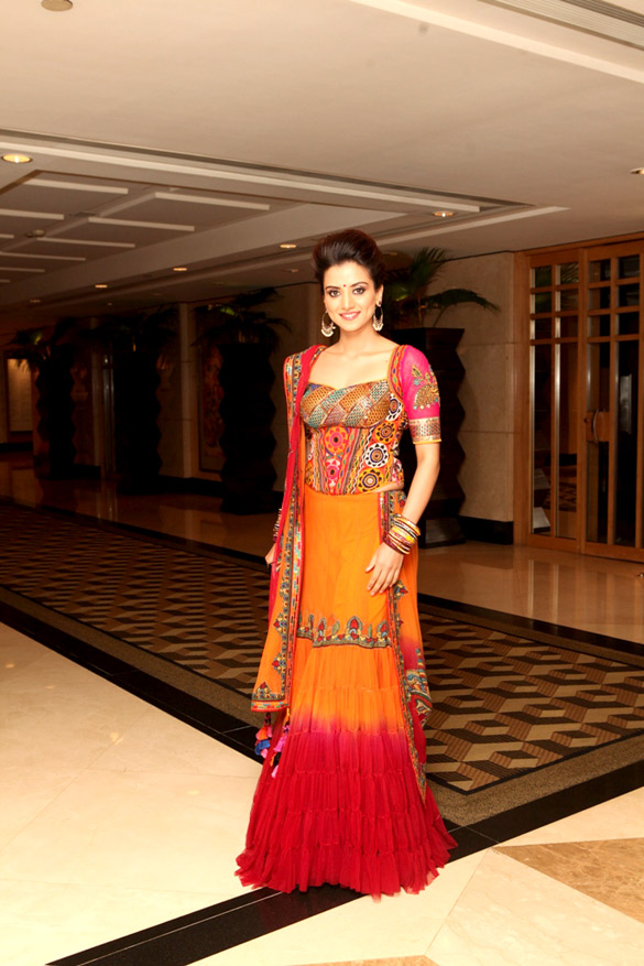 Kulraj at chaar din ki chandani hong kong premiere